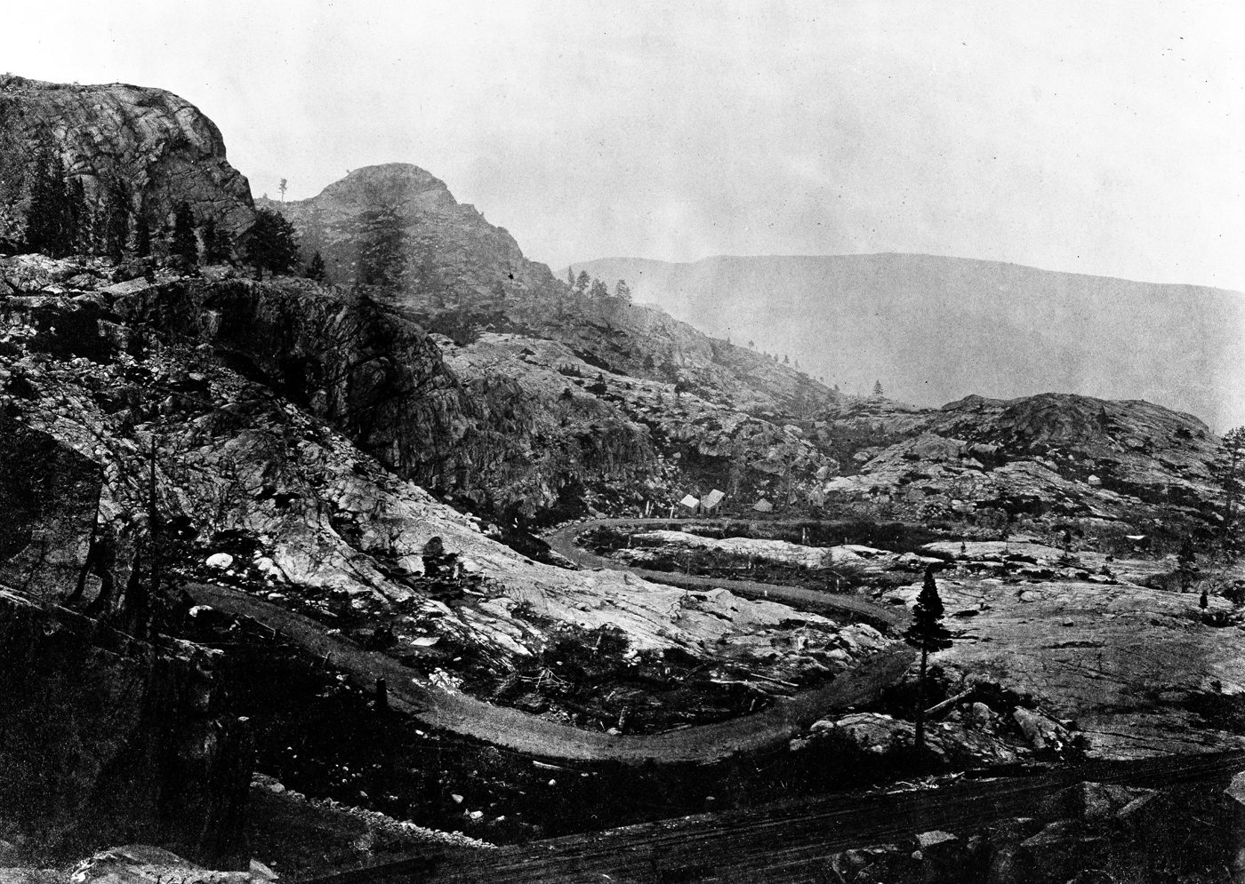 Donner Lake Pass in the Sierra Nevada Mountains of California. The King Survey took place in the 1870s.